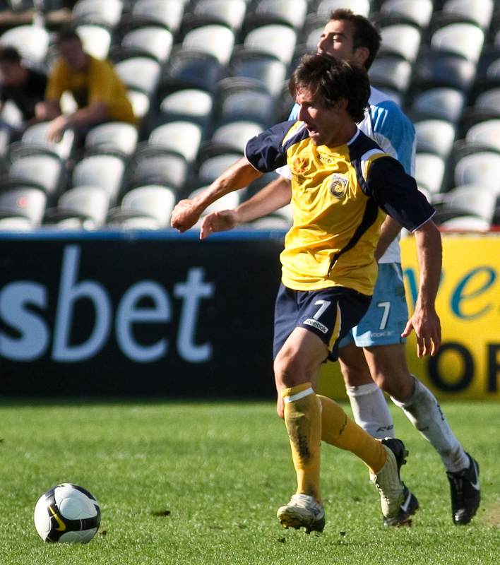 Andrew Clark playing for the Central Coast Mariners youth team against Sydney FC youth.